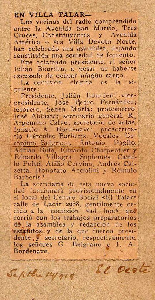 Newspaper note reporting the creation of the Asociación de Fomento de Villa Talar (association for the improvement of the Villa Talar quarter, Buenos Aires city, Argentina). The president of the Association was Mr. Julián Bourdeu. The Villa Talar quarter dissapeared by an act of the 1980's and was divided in benefit of two other Buenos Aires quarters.